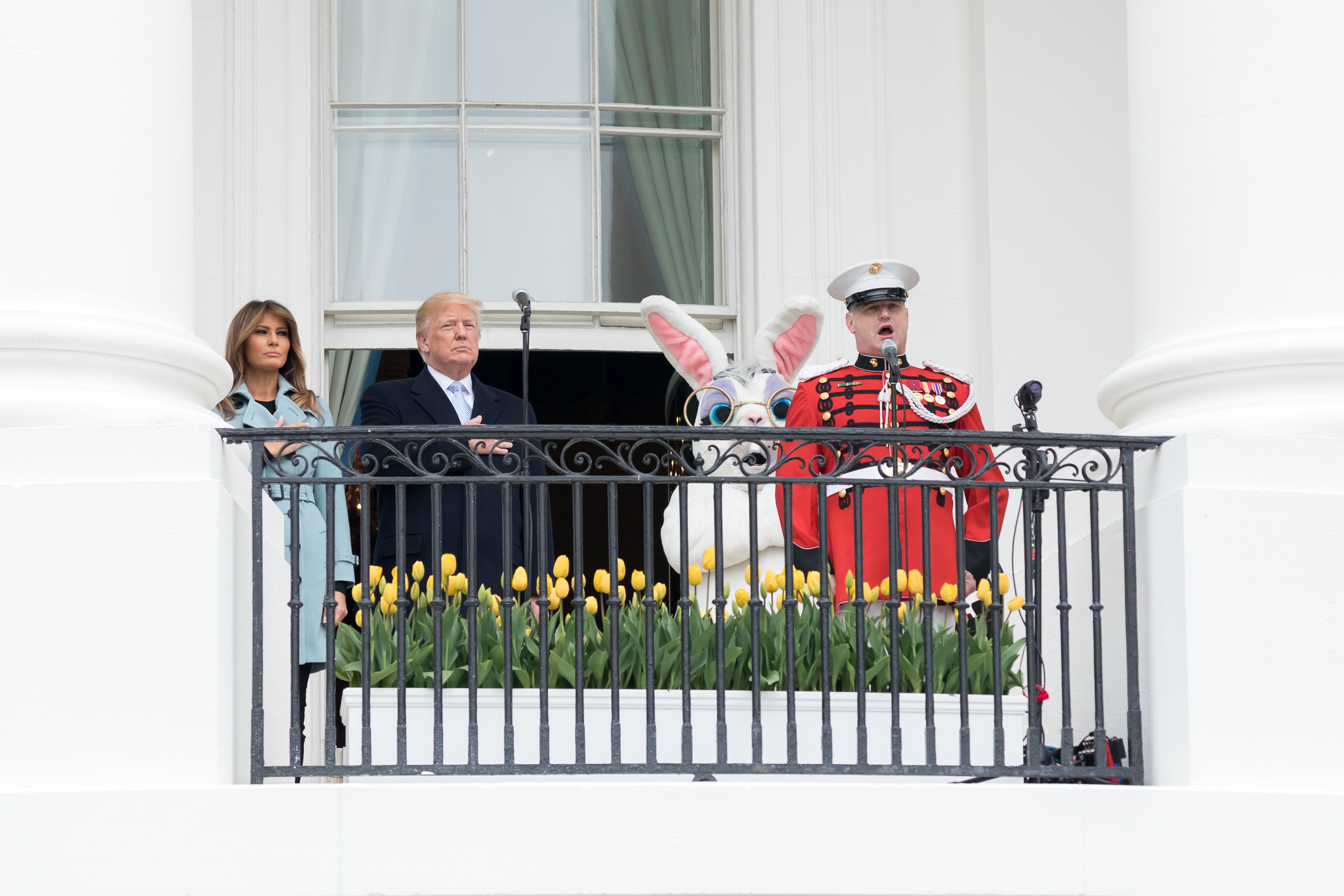 President Donald J. Trump and First Lady Melania Trump and the 140th White House Easter Egg Roll | April 2, 2018 (Official White House Photo by Andrea Hanks)